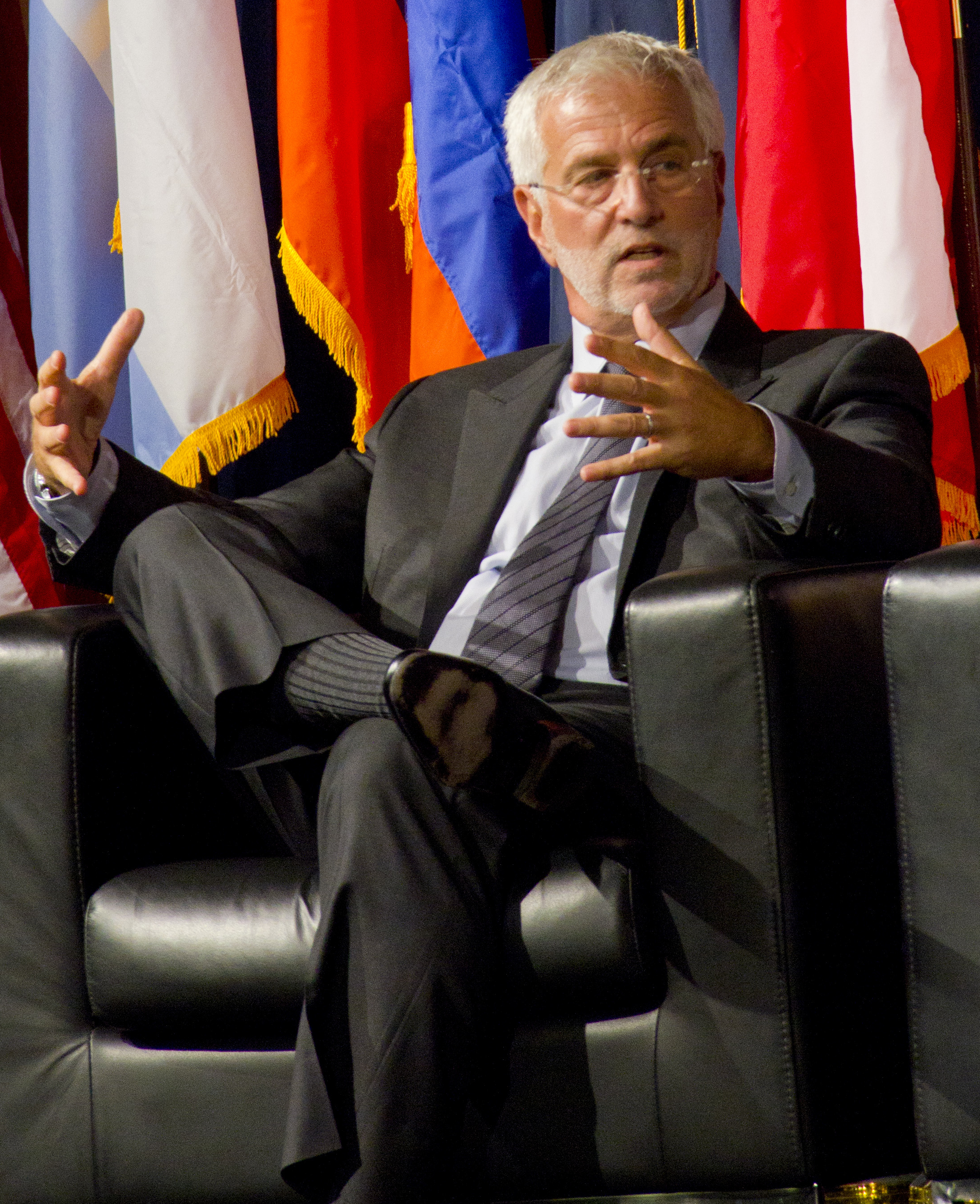 Rob Friedman is the co-chairman of Lionsgate Motion PIcture Group. (Rosa Trieu/Neon Tommy)